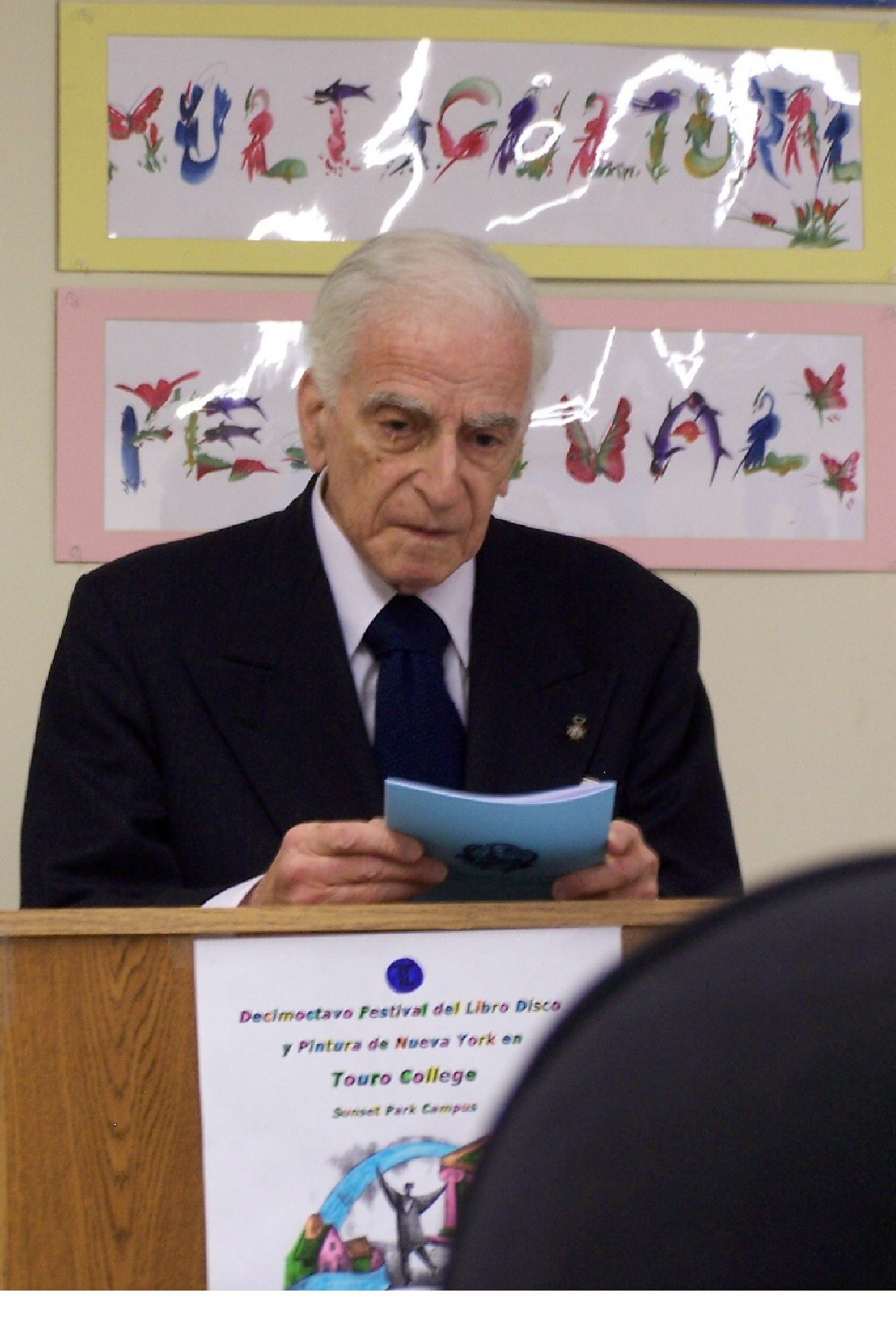 Picture of Peter Raphael Bloch